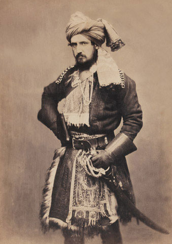 Original description: Dighton Probyn, 2nd Punjab Cavalry, in Indian dress, 1857 (c). Photograph, India, 1857 (c). Dighton MacNaghten Probyn (1833-1924) began his career with 2nd Punjab Cavalry, serving for five years in operations on the Trans-Indus frontier before his outstanding service in the Indian Mutiny (1857-1859). He was mentioned in despatches seven times during the Mutiny, then awarded the Victoria Cross 'for gallantry and daring throughout this campaign'. In 1858, he was appointed to command 1st Regiment of Sikh Irregular Cavalry. This became 11th Bengal Cavalry in 1861. Although Probyn gave up command of the regiment in 1866, a year later he sat to Swinton for his portrait in this uniform, an indication of his pride in the regiment. Probyn served in the 2nd China War (1857-1860), and went on to receive a number of honours and awards, becoming a General in 1888 and a Privy Counsellor in 1901. He served for 54 years in the Royal Households of King Edward VII, King George V and Queen Alexandra, and died in 1924 at the age of 91. In 1904 when Probyn was appointed Honorary Colonel of his former regiment, it became 11th Prince of Wales's Own Lancers (Probyn's Horse). After Partition in 1947, it was assigned to the Army of Pakistan as Probyn's Horse (5th King Edward VII's Own Lancers). Since 1956, when Pakistan became a republic, Probyn's name has remained only on its badge.